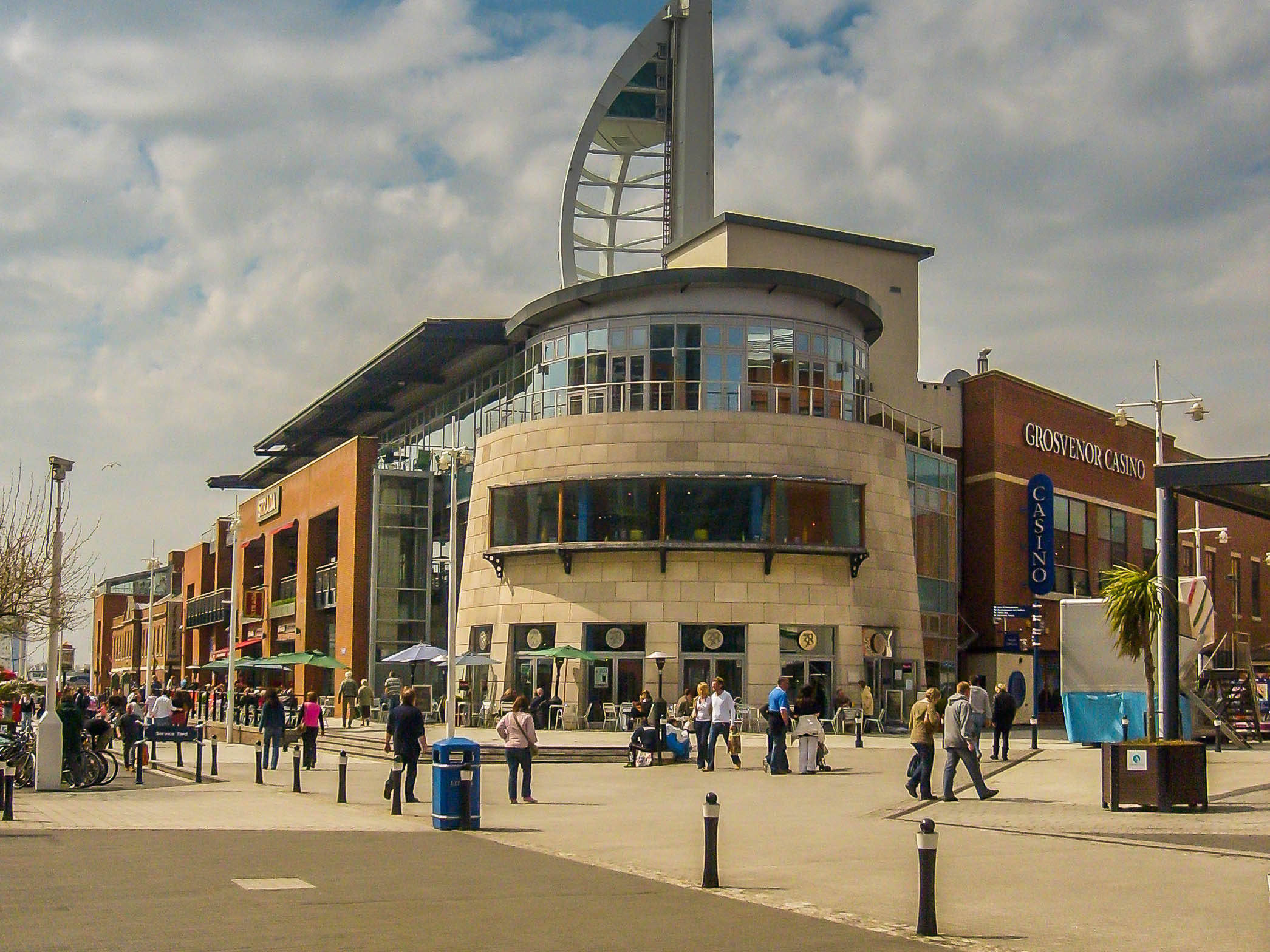 The Bar 32 from the East Plaza at Gunwharf Quays.